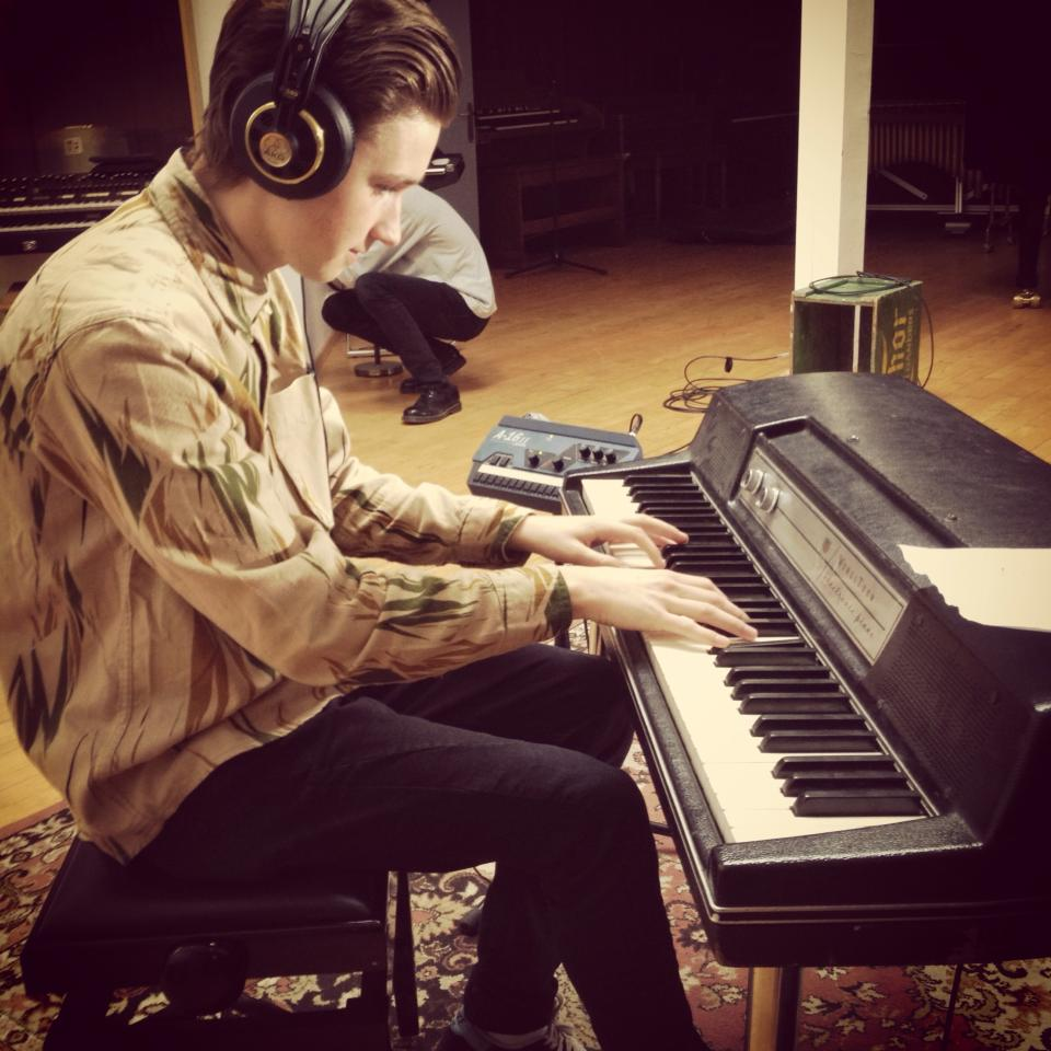 Jesper Nohrstedt recording in the studio